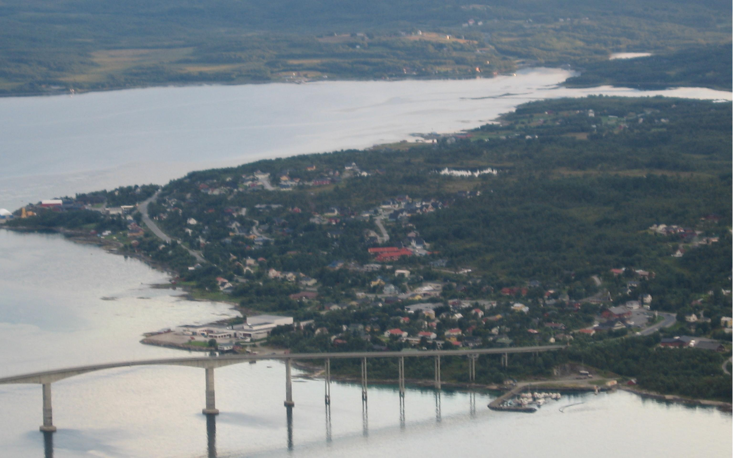 View over Silsand with Gisund bridge